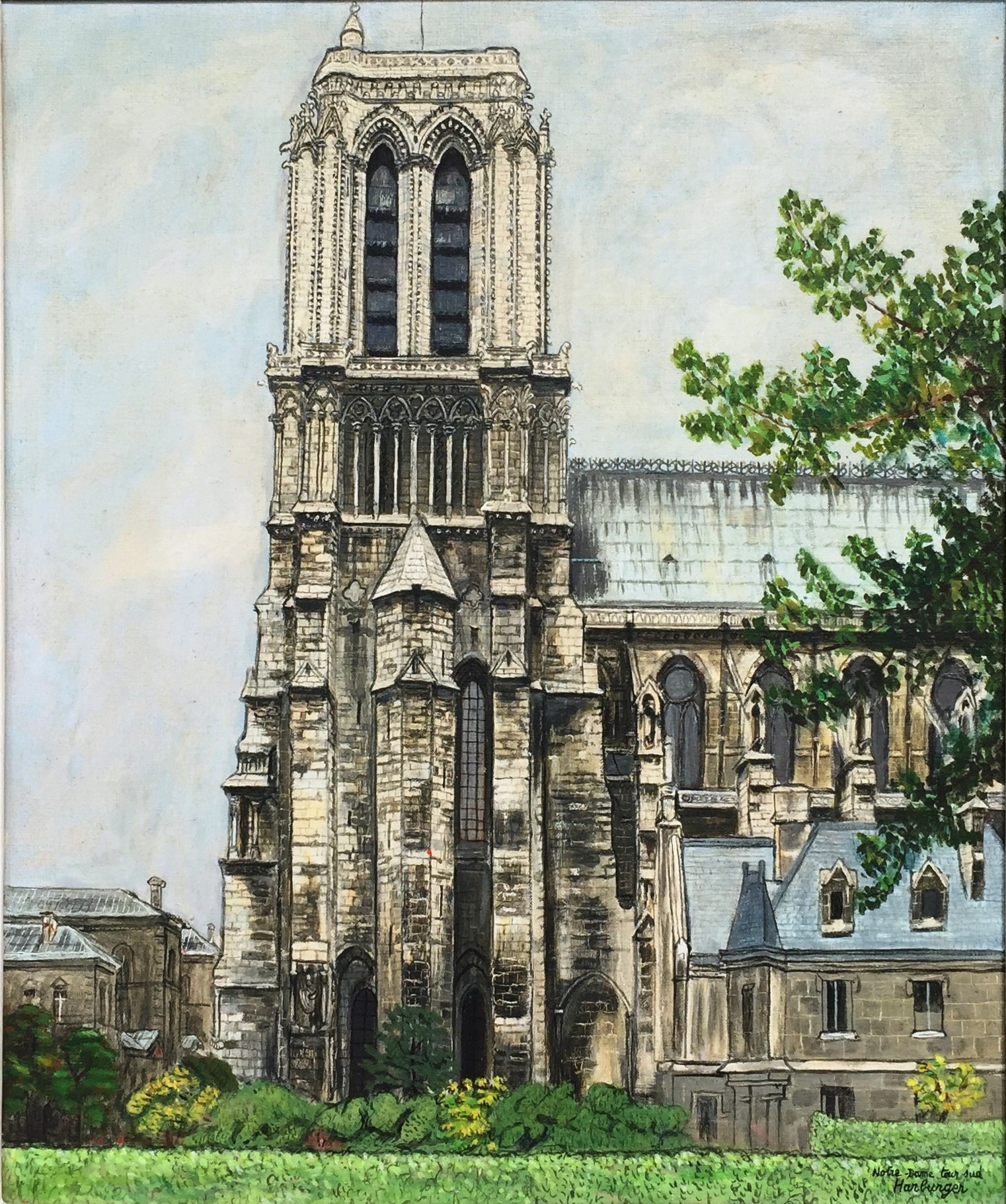 Oil on canvas, 55 x 46 cm. Private collection